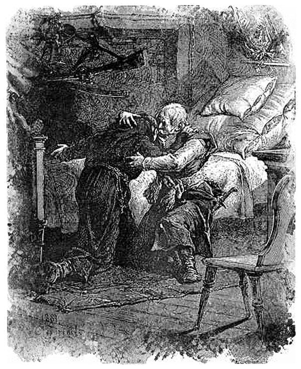 Illustration of Pan Tadeusz, Book 8